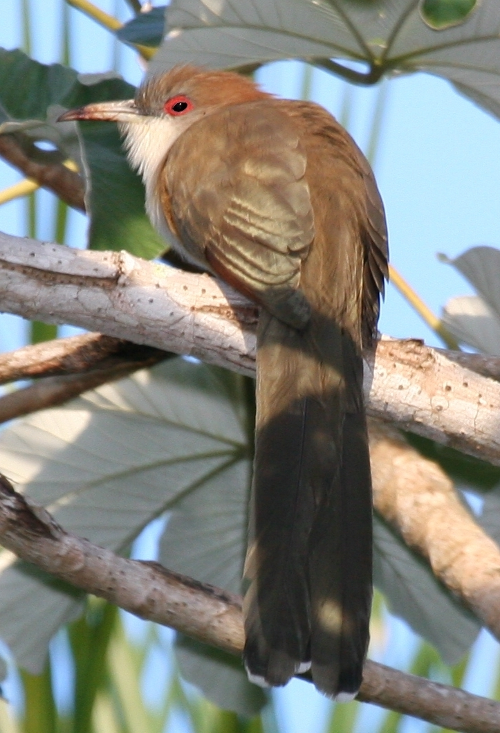 Great Lizard-cuckoo Saurothera merlini (syn. Coccyzus merlini), cropped